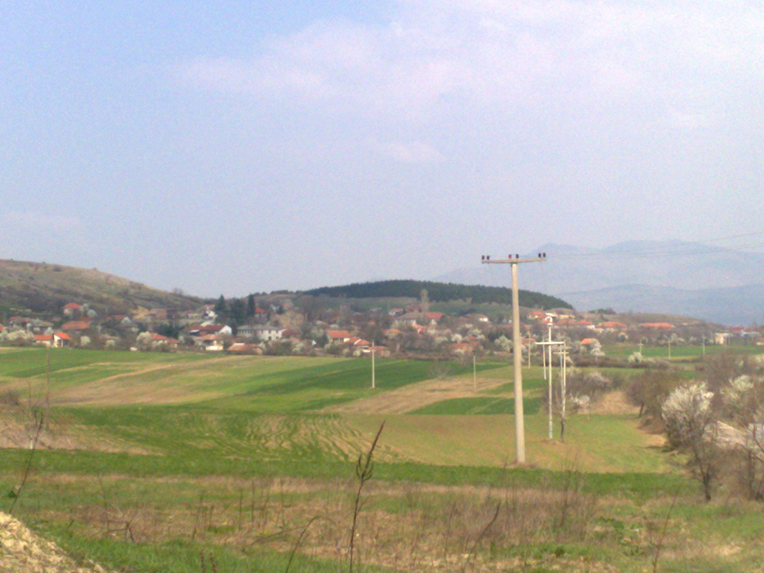 village of Staro Nagoricane, near Kumanovo, Macedonia